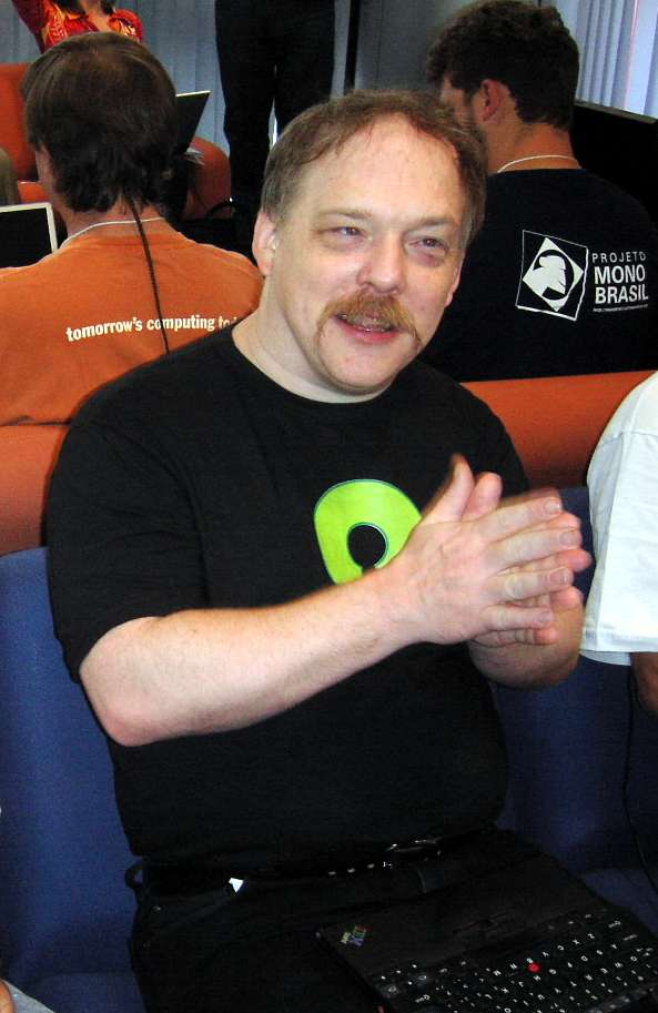 Eric S. Raymond, taken on 3-June-2005 at FISL 6.0 in Porto Alegre, Brazil.